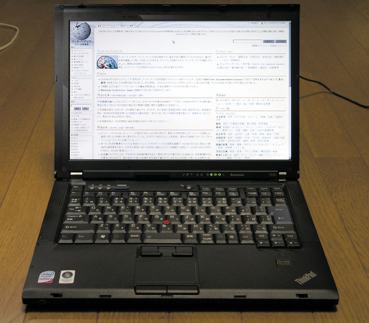 ThinkPad T400 Model7417-TBJ